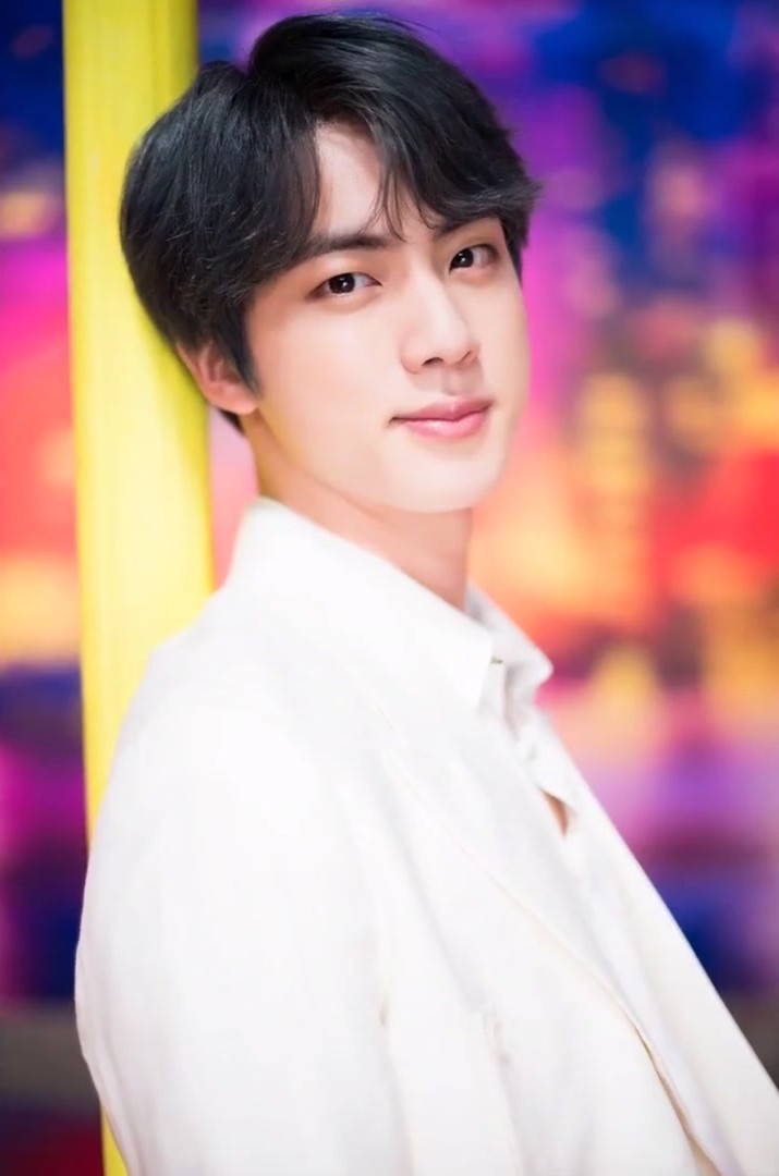 Jin for Dispatch "Boy With Luv" MV behind the scene shooting, 15 March 2019